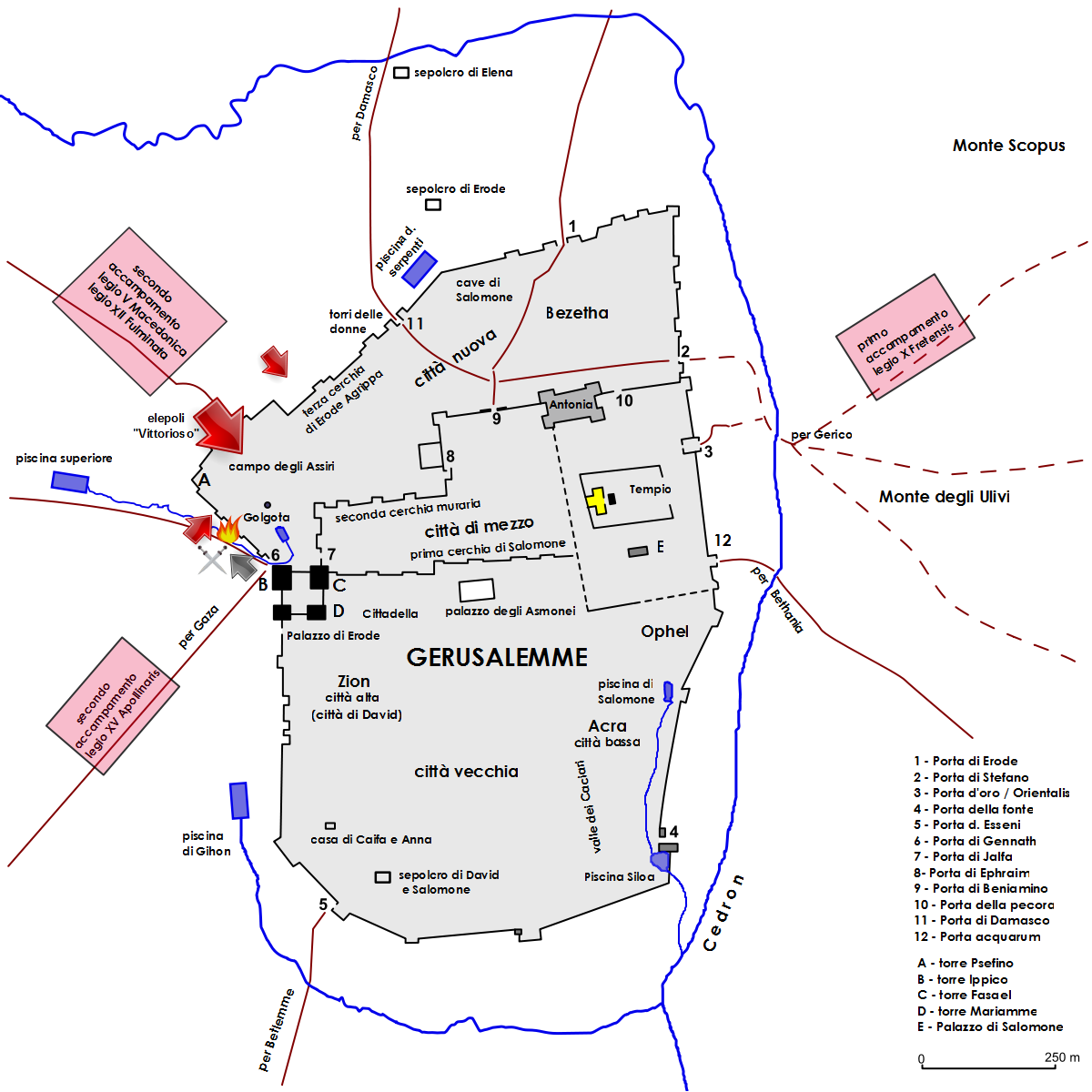 Jerusalem at the time on siege of 70 - 3rd step